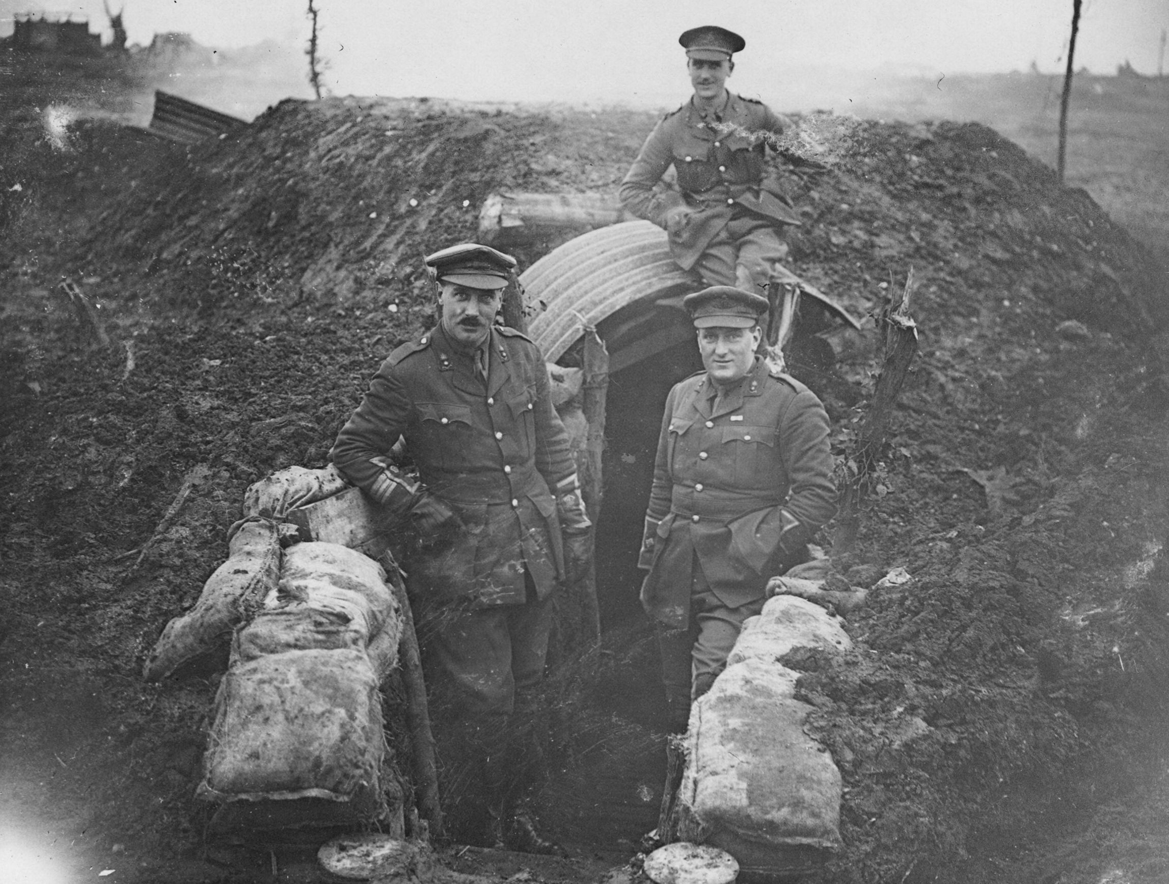 Officers' dugout, Western Front. Three officers at the entrance to a dugout. The grenade collar badges confirm the caption's identification of these men as Artillery officers. The dugout is formed of earth apparently piled up over arcs of corrugated iron, with posts and sandbags revetting the entrance. This dugout appears fairly primitive and hastily made, but the conditions inside were probably far better than those endured by many of the ordinary soldiers in the trenches. When they were away from the trenches, officers were often billetted very comfortably in large country houses [Original reads: 'Artillery officers at the entrance to their dugout.']